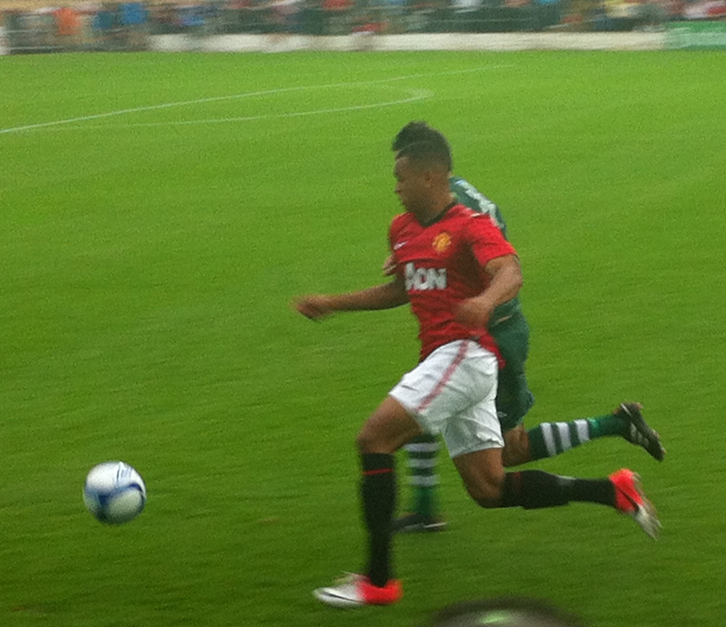 JoshuaKingManchesterUnitedCorkCity